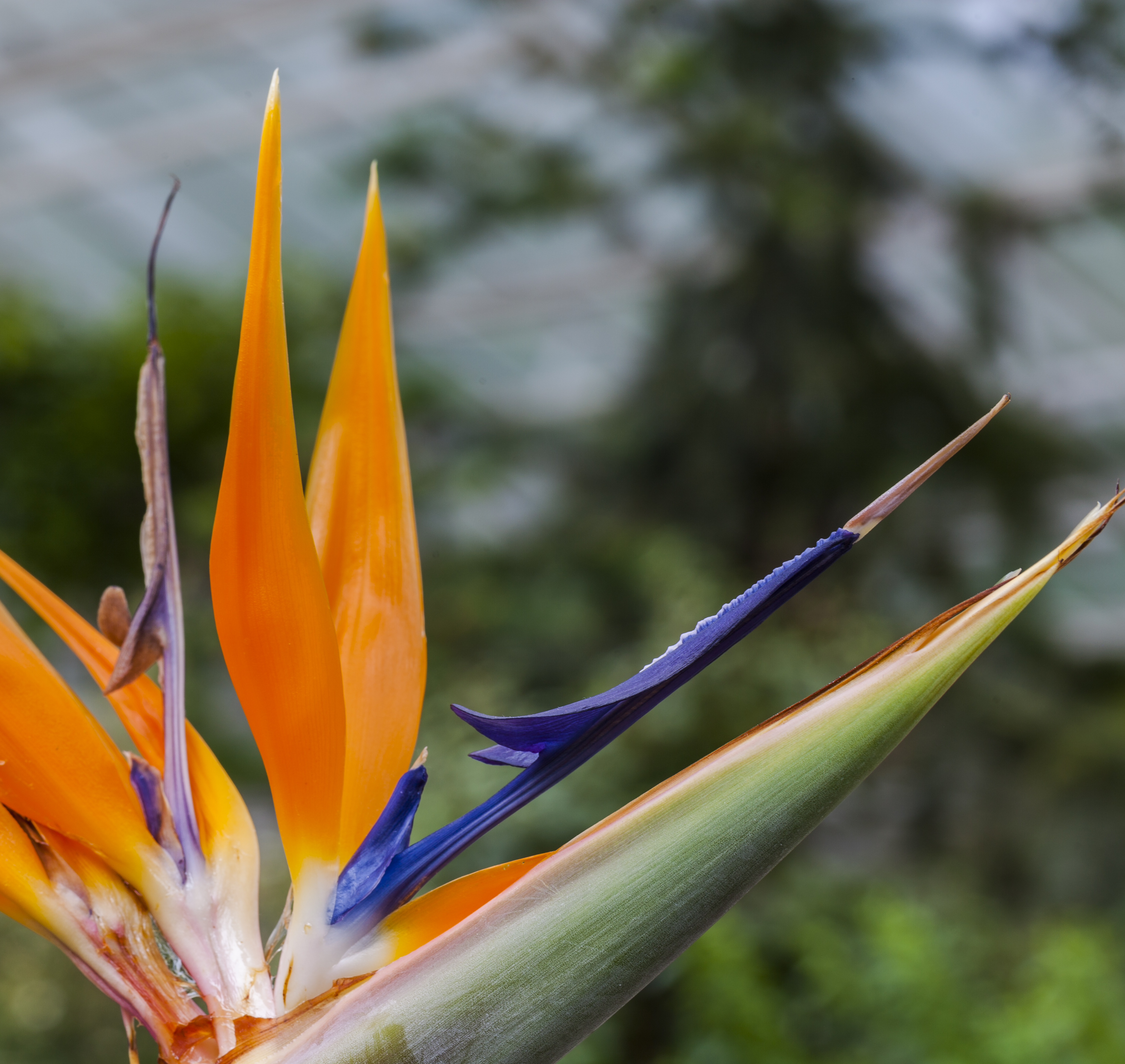 Bird of Paradise (Strelitzia reginae), Munich Botanical Garden, Germany